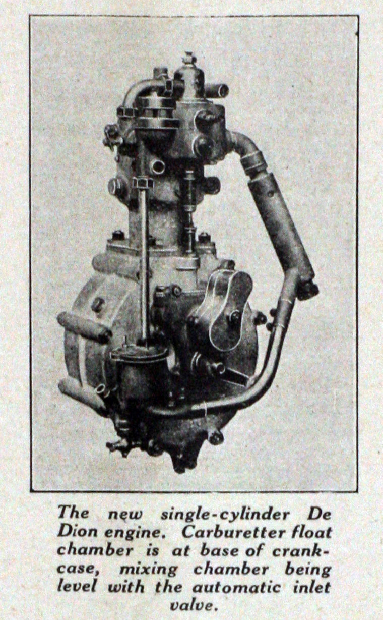 1908 De Dion-Bouton single cylinder engine. This was the last generation of this important engine.